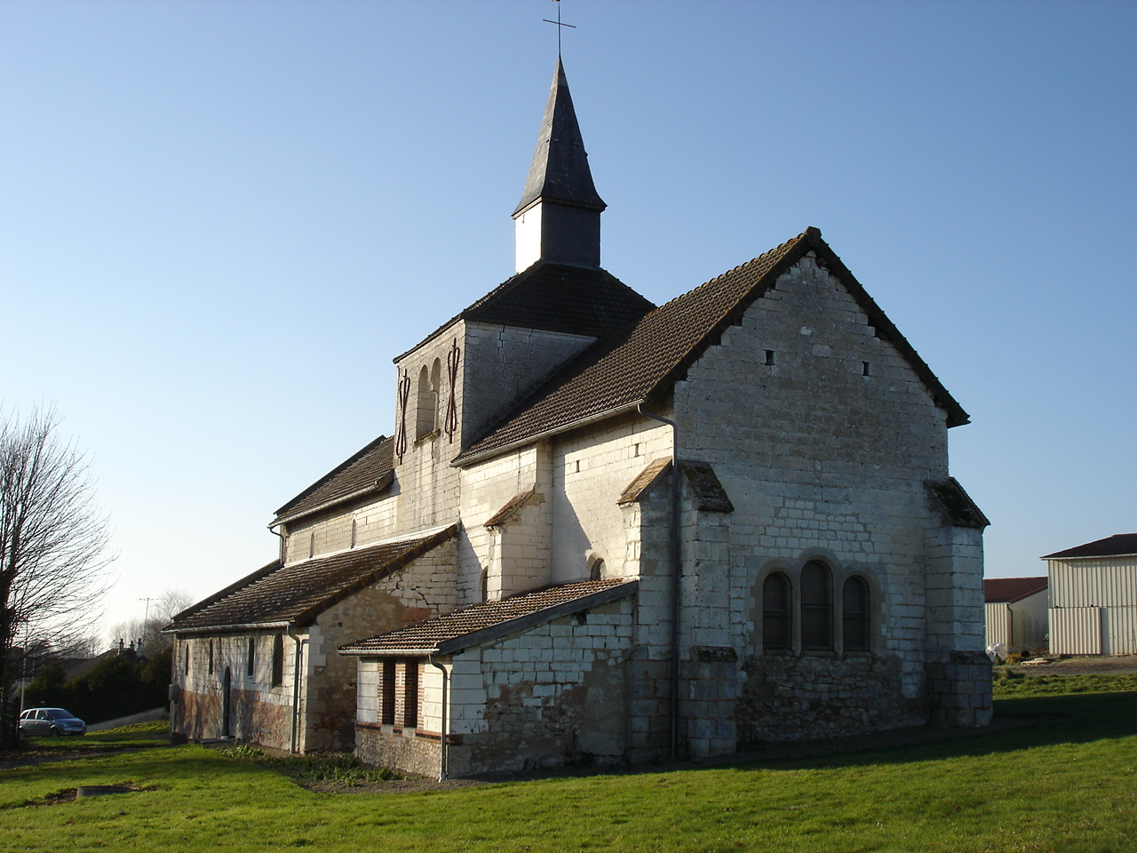 Church of Germinon (12th century), Marne , France